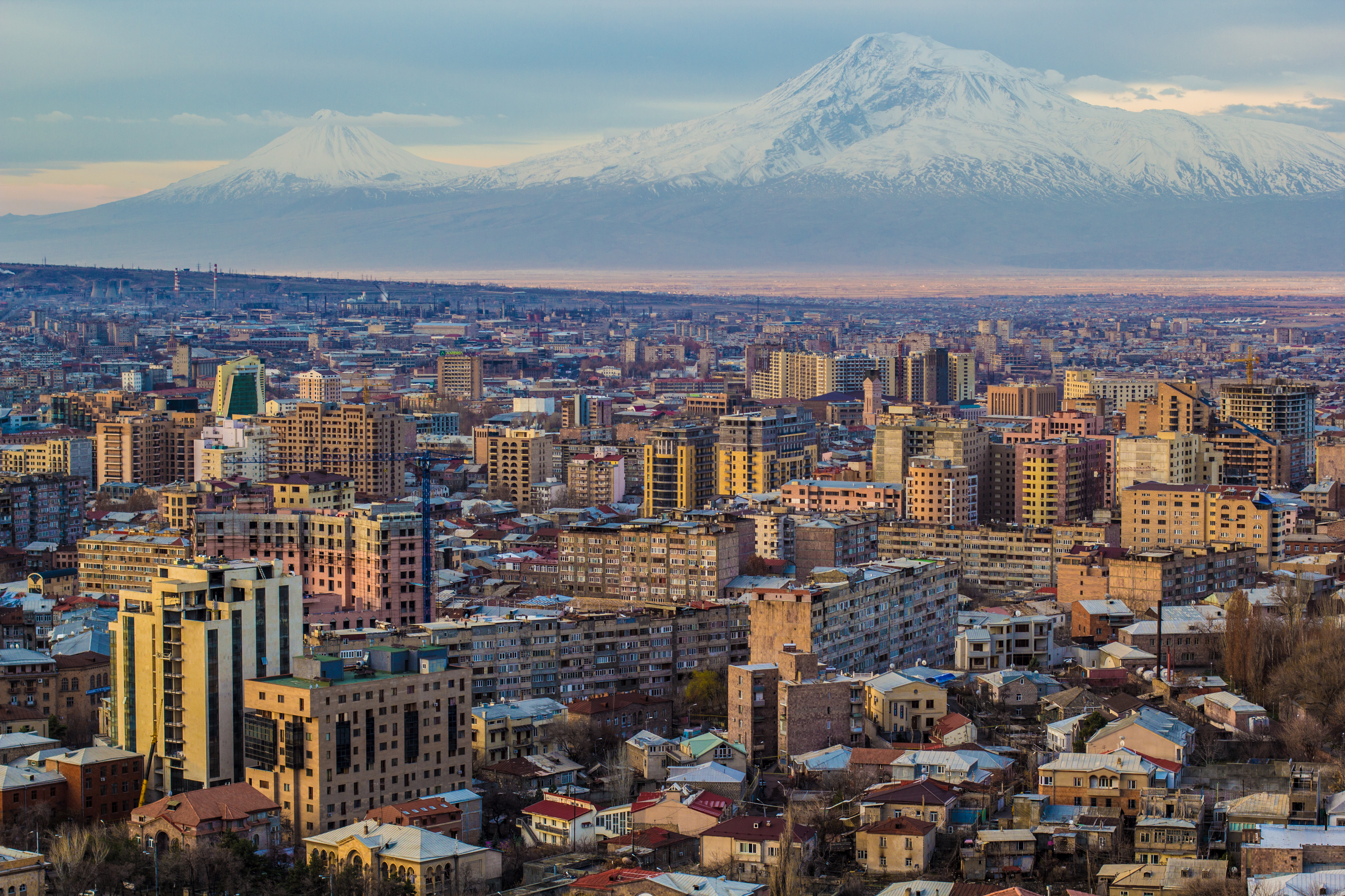 View of Yerevan the capital of Armenia in early spring 2014 from the Antarayin (Woods) neighborhood near the Cascades.